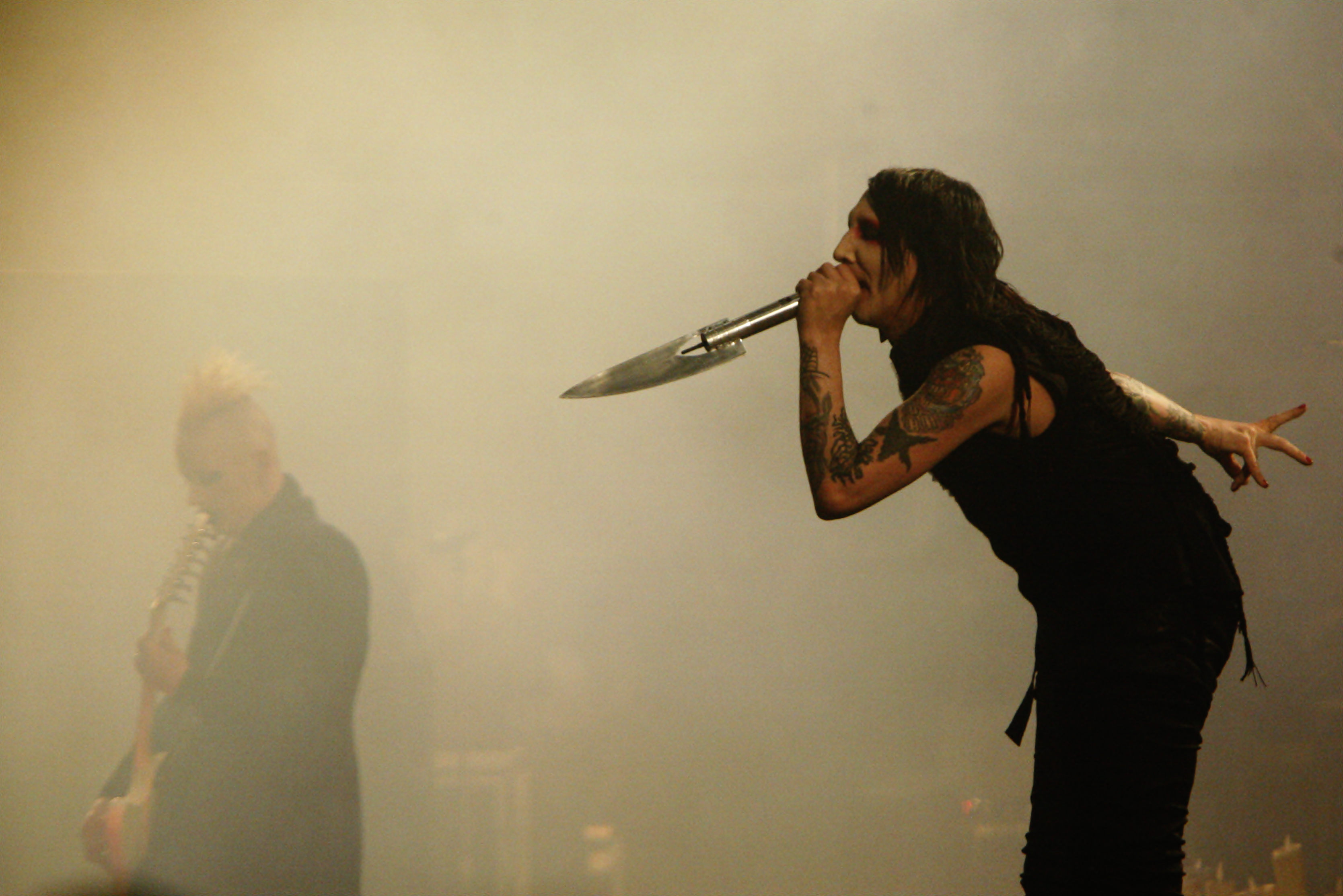 Marilyn Manson at the Eurockéennes of 2007